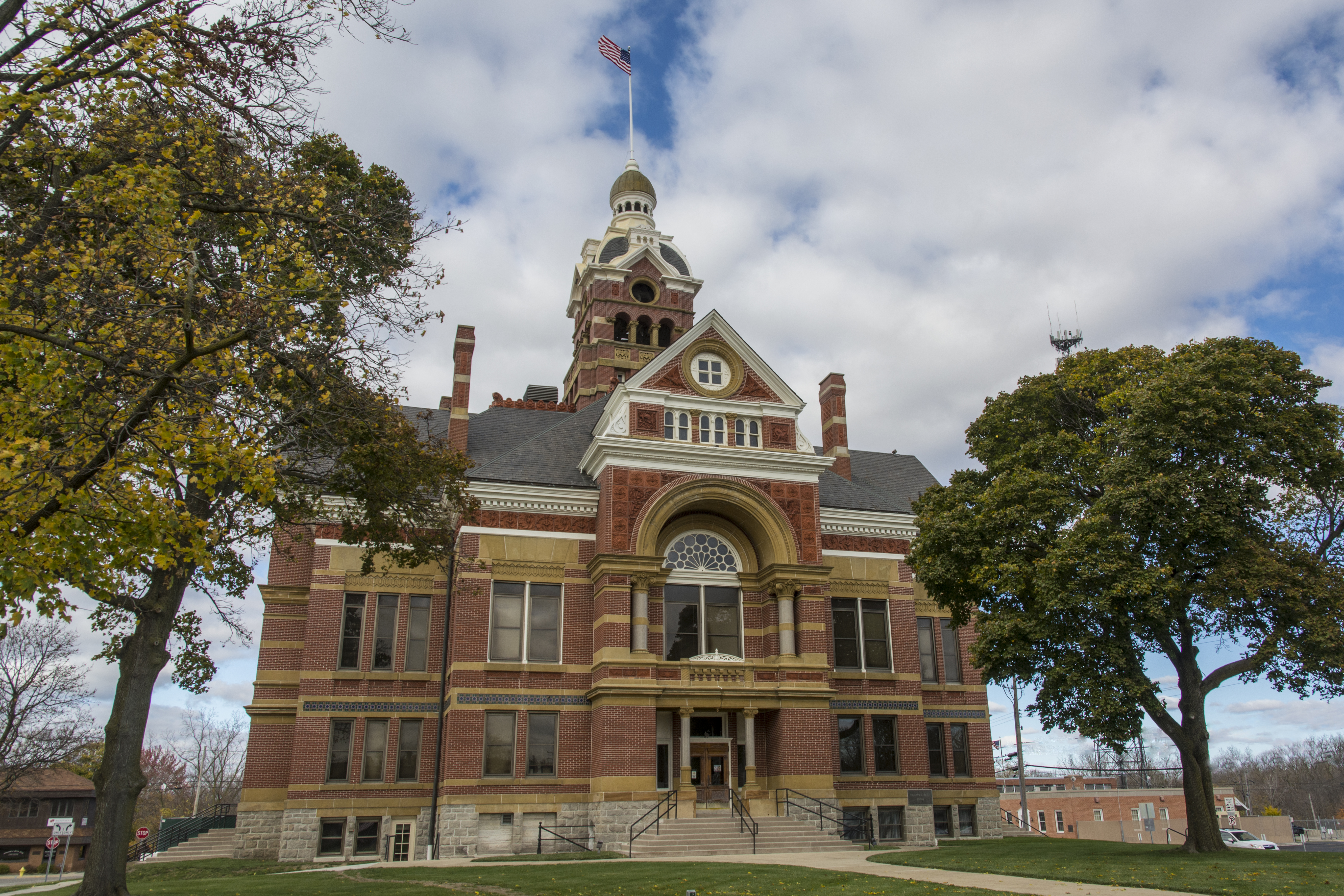 Lenewee County Courthouse